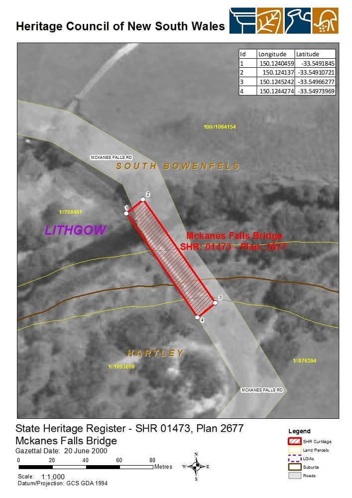 McKanes Falls Bridge: SHR Plan No 2677